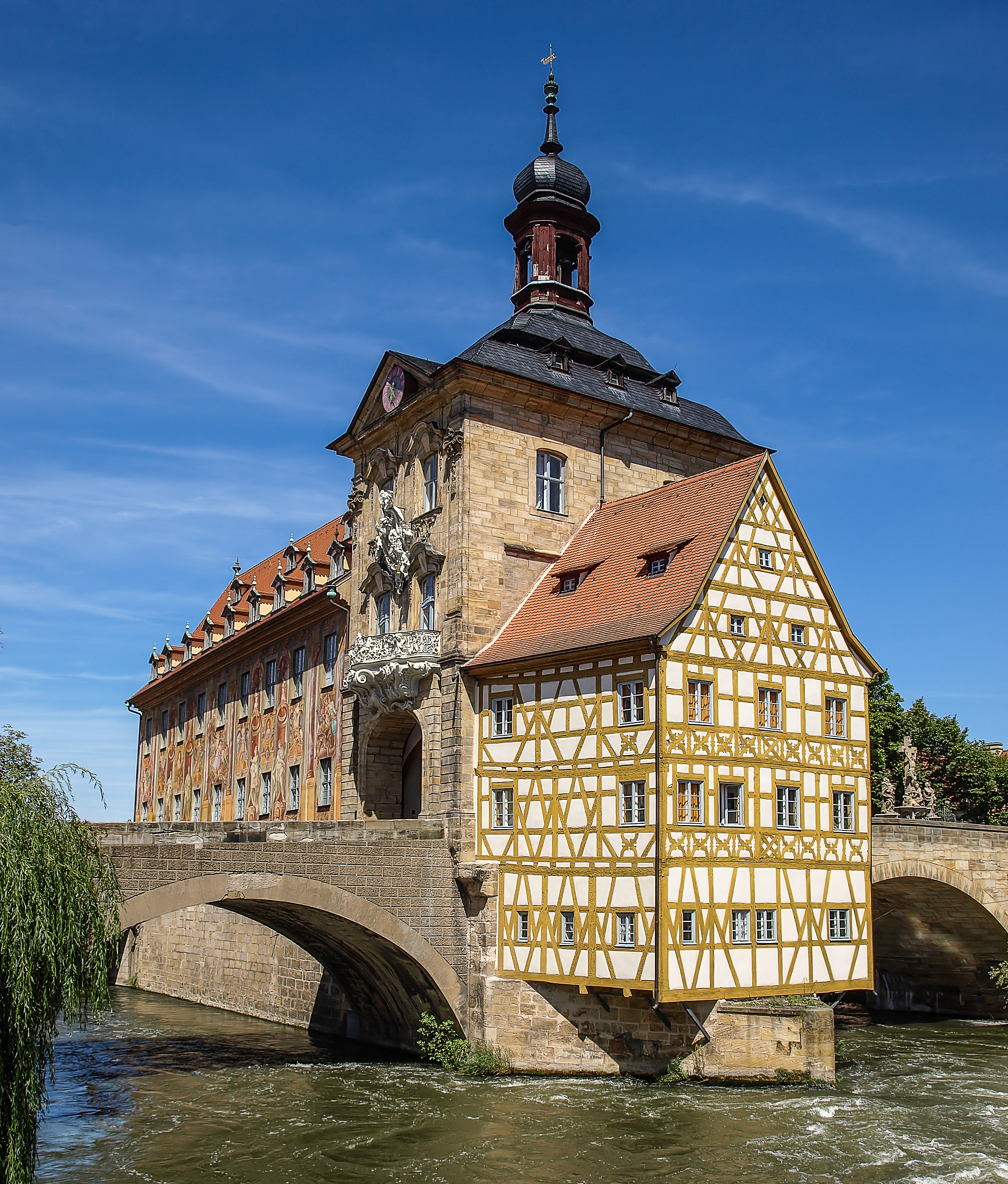 The Old Town Hall in Bamberg, Bavaria, Germany